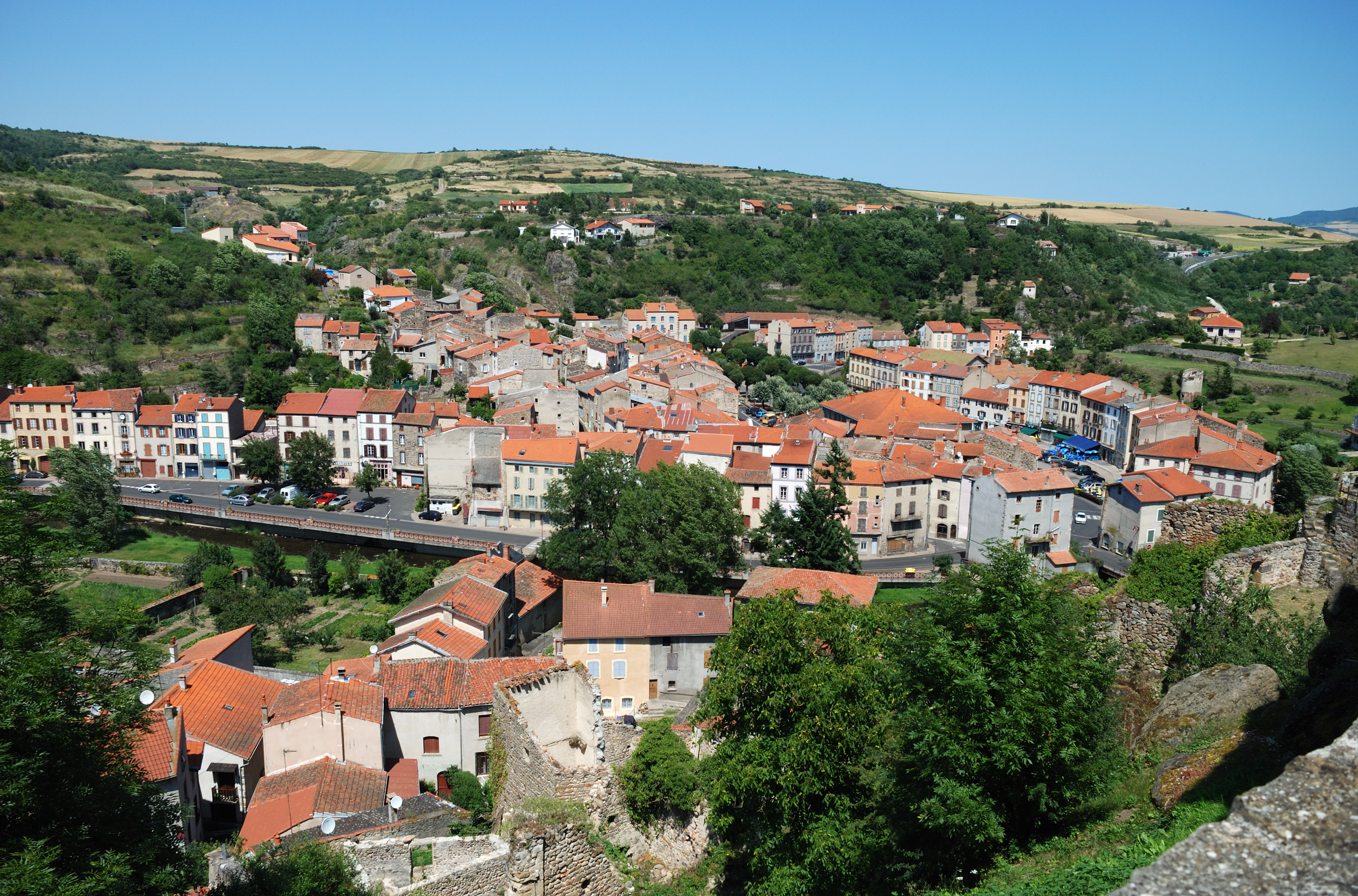 Champeix (Puy-de-Dôme, France. Translations in other languages are welcome.